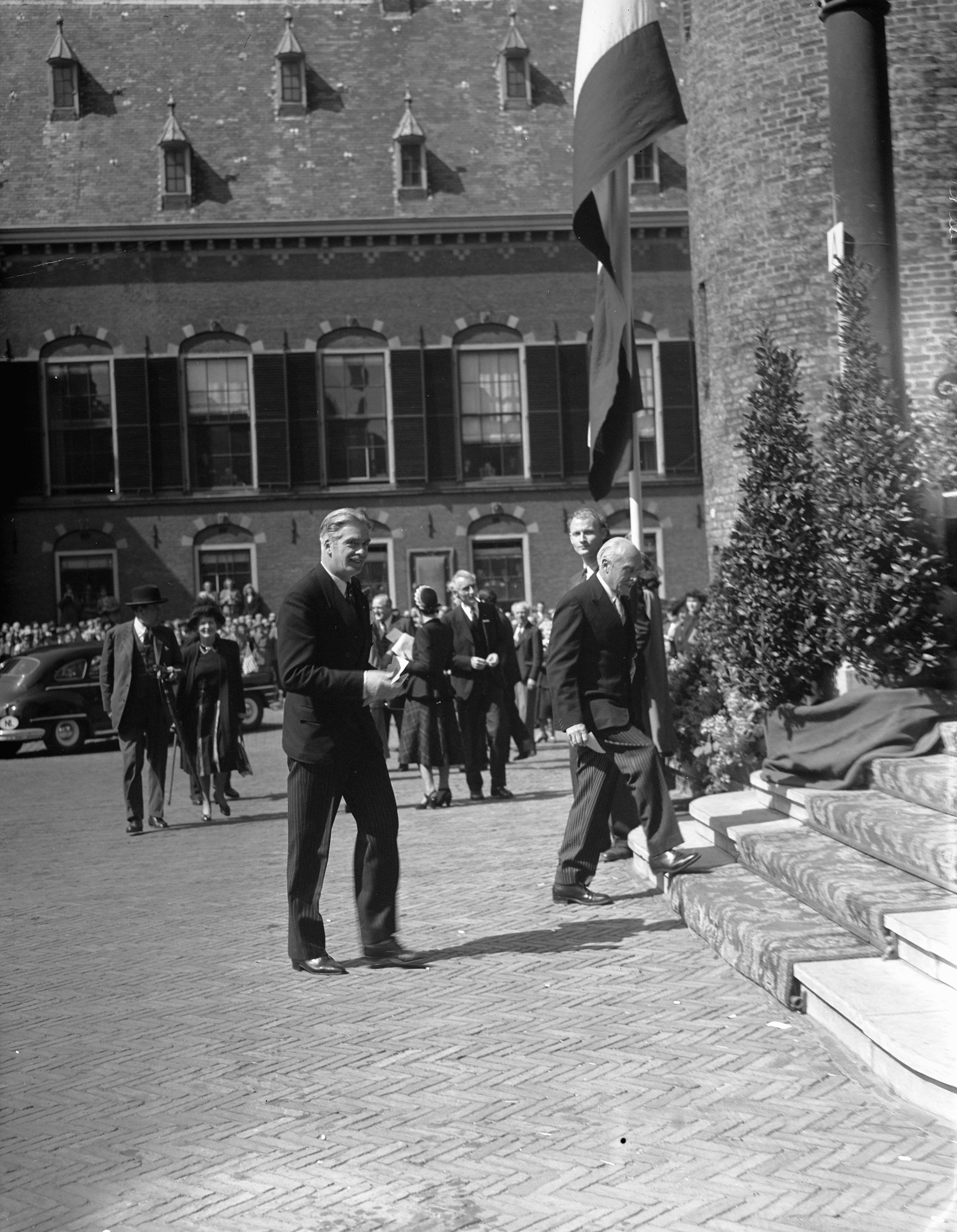 Congress of Europe in The Hague (1948). Arrival of Anthony Eden at the Hall of Knights.